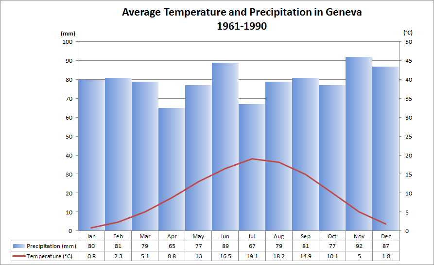 Average Temperature and Precipitation in Geneva, Switzerland 1961-1990. Source meteosuisse climate data